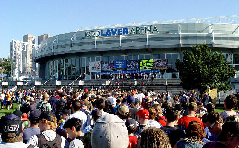 Crowds gathering at Rod Laver Area in Melbourne, Australia. The stadium provides facilities for sporting events such as tennis and basketball, as well as concerts and other productions. Photo taken Feb 2004. SimonEast, the copyright holder of this work, hereby publishes it under the following license: Attribution: SimonEast